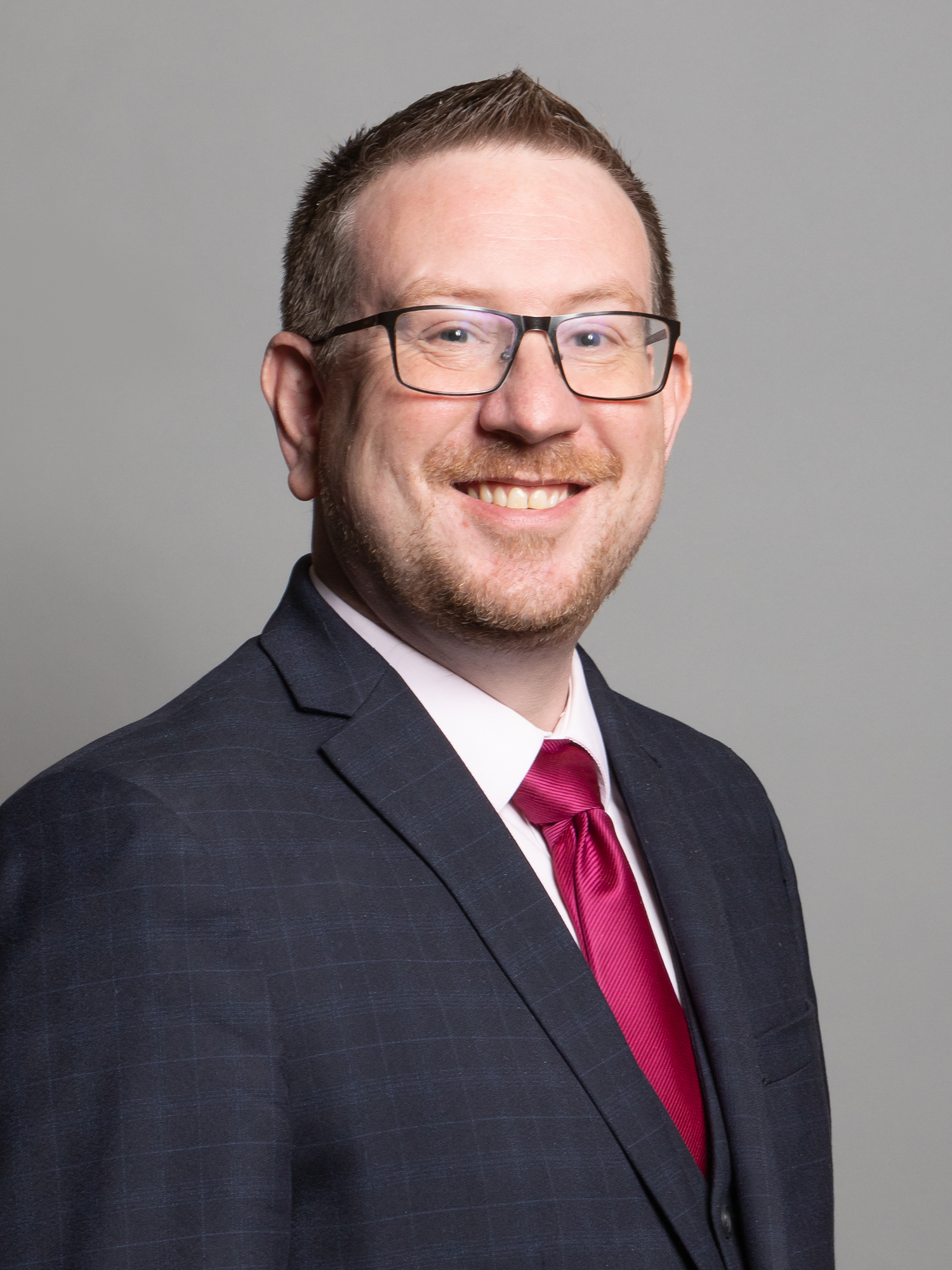 Official portrait of Andrew Gwynne MP 3×4 portrait of Andrew Gwynne